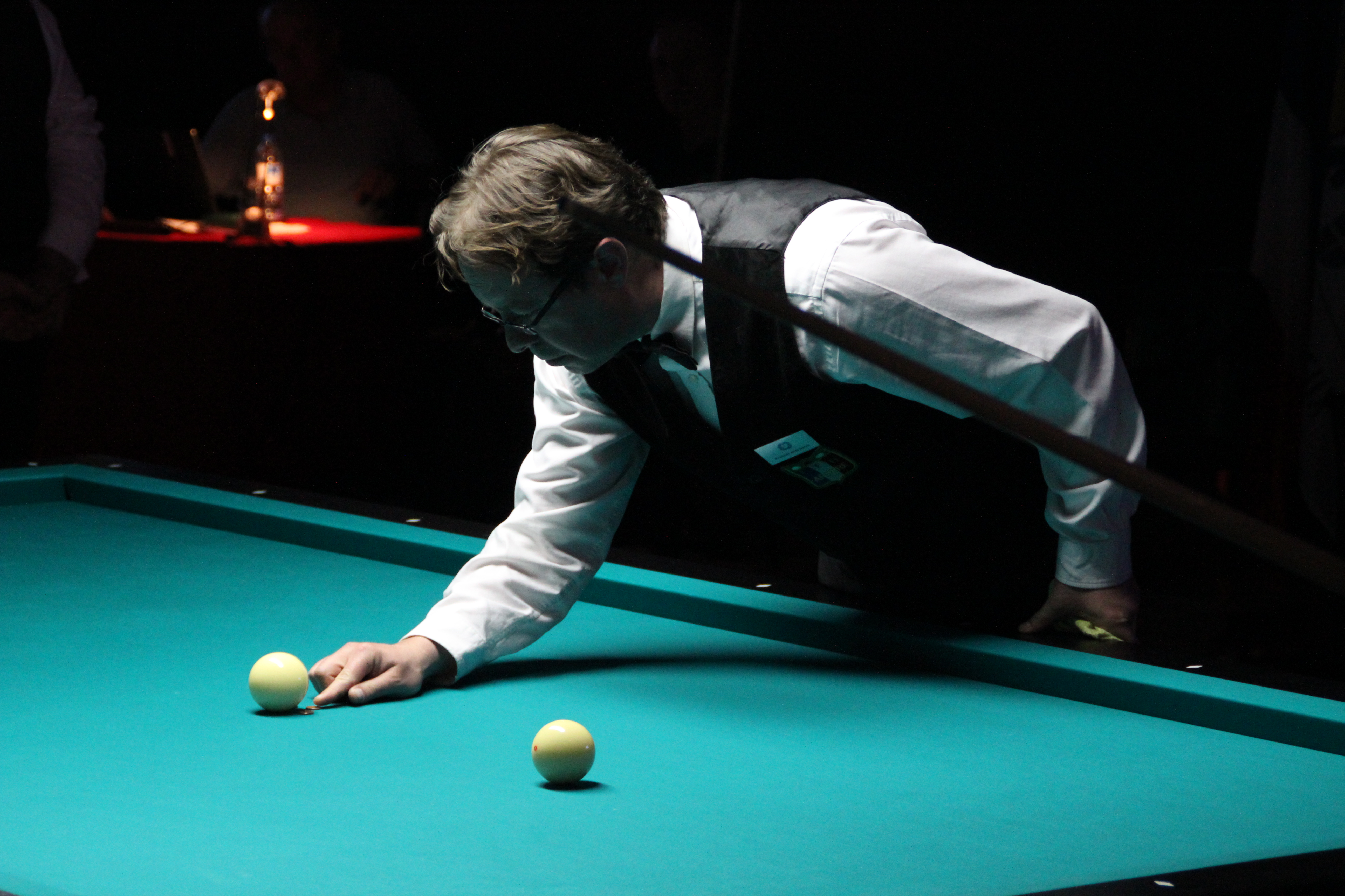 French championships of carom billiards 2012 in Voisins-le-Bretonneux. - Google Maps - Google Earth